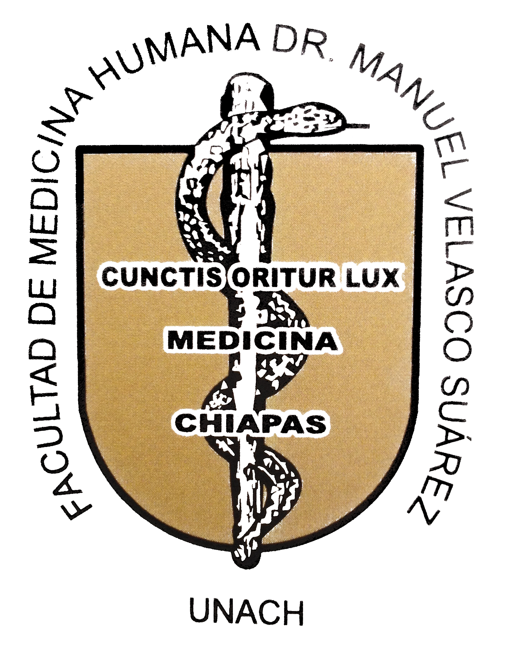 Logo of the Faculty of Human Medicine, Campus II, UNACH